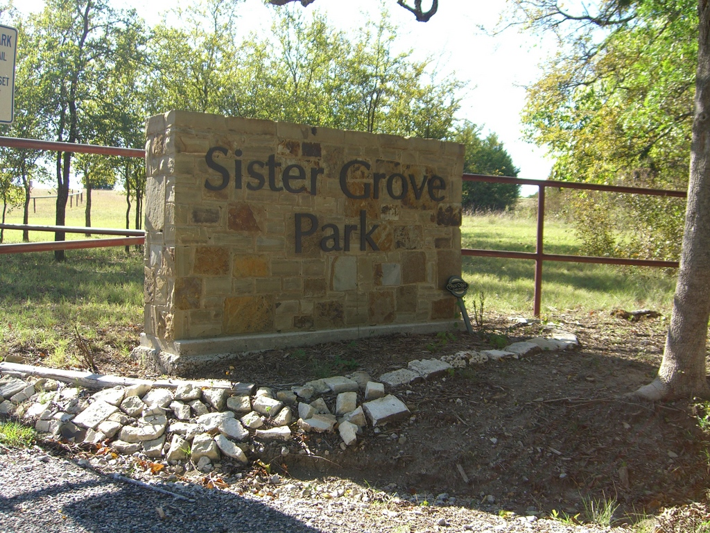 The park sign at Sister Grove Park